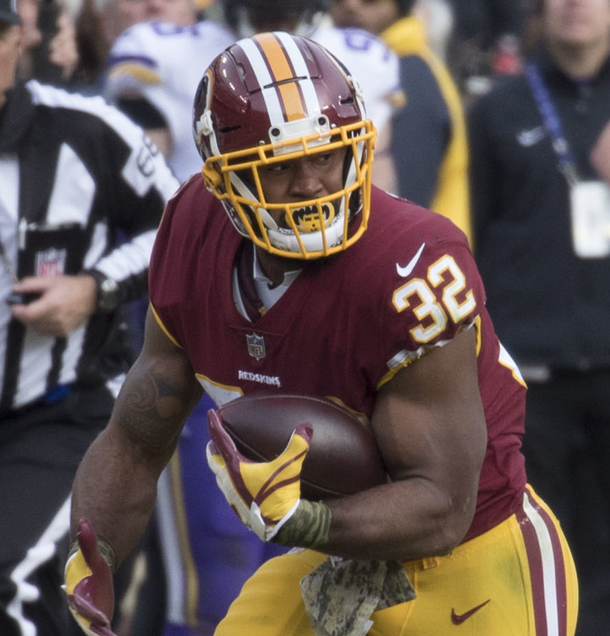 Washington Redskins running back, Samaje Perine, playing against the Minnesota Vikings on November 12, 2017